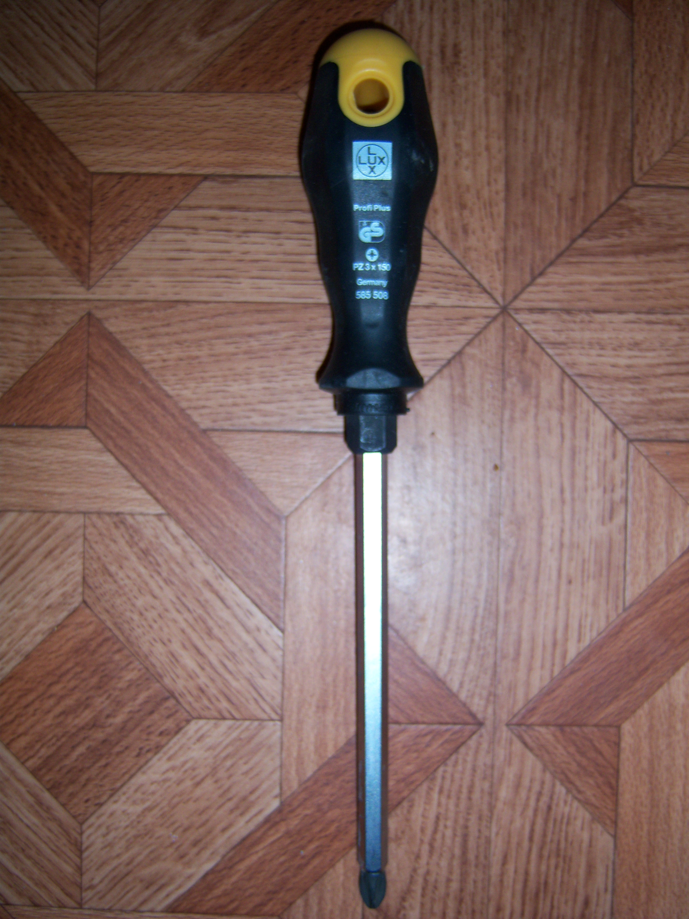 Manual screwdriver Lux-Tools